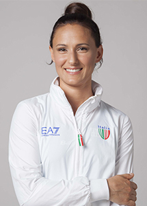 Agnese Allegrini testimonial ViviMoringa